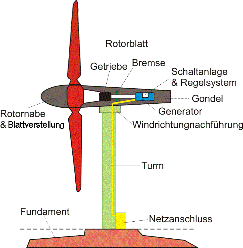 diagram of a wind turbine